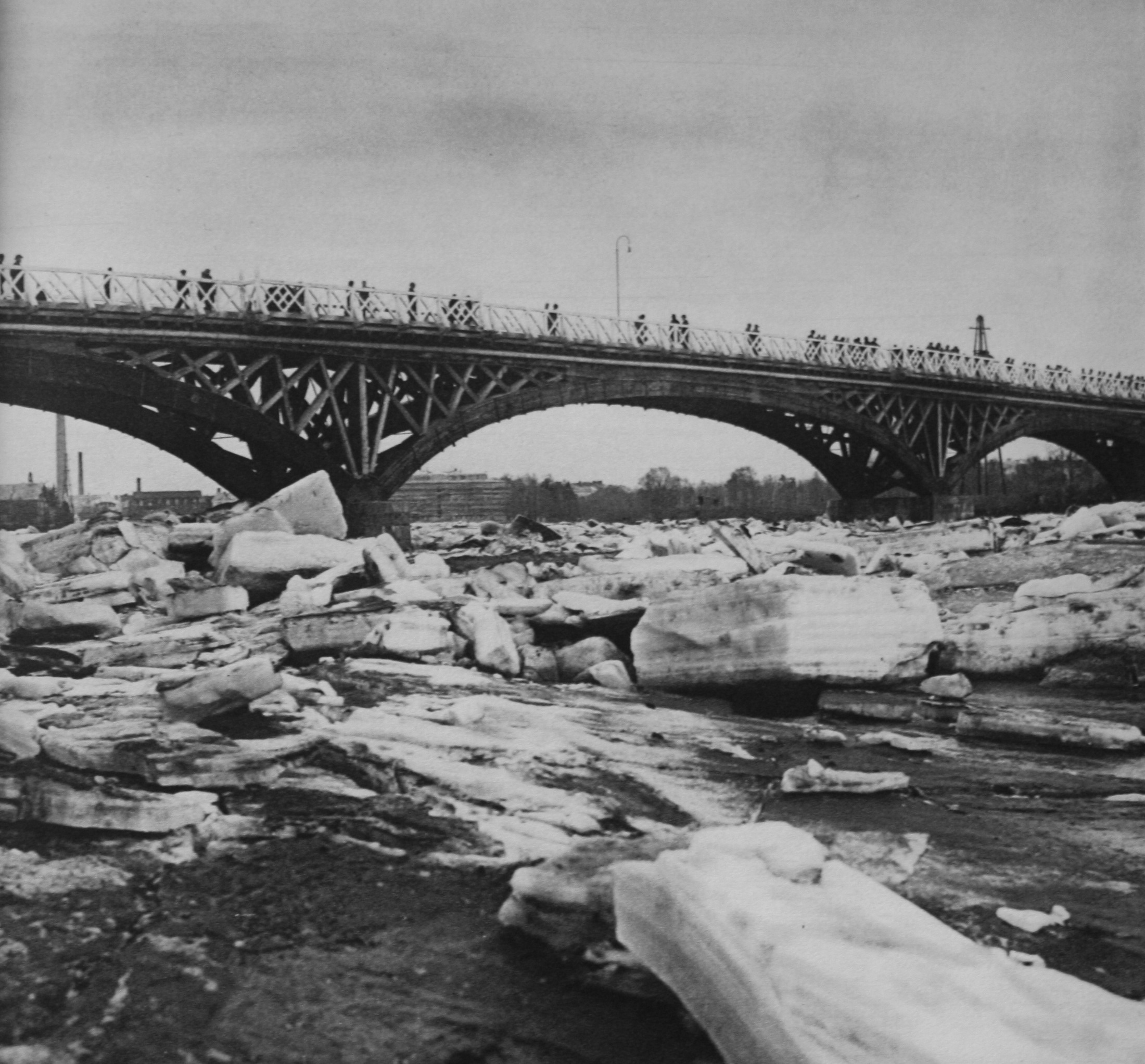 Former Tuira Bridge during breaking up of ice. The bridge was built in 1869 and demolished in 1948.